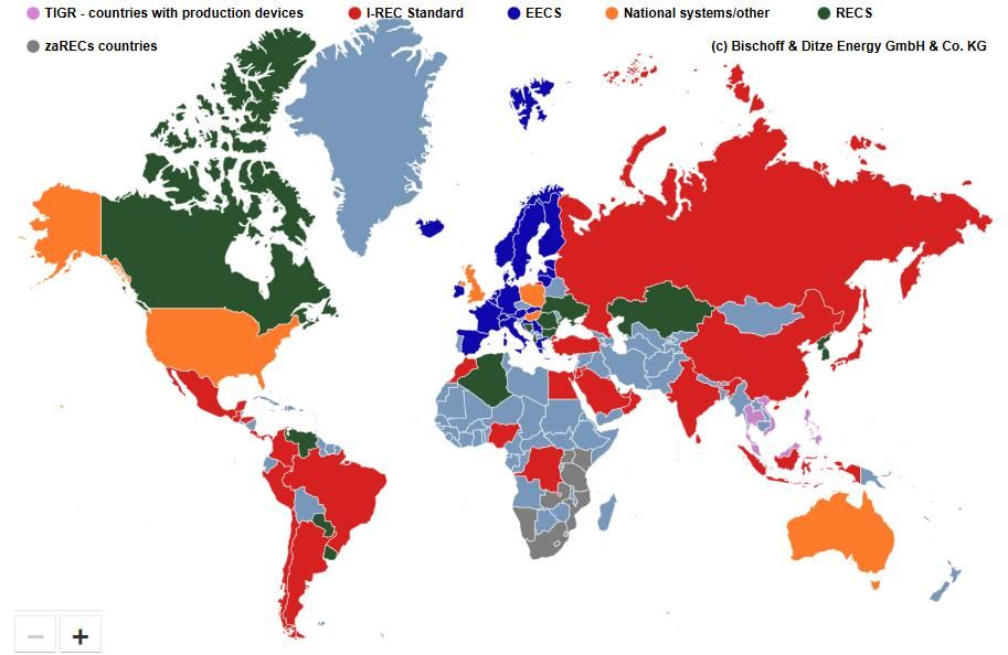 The follwing map gives an overview of the different systems worldwide. Please note: some countries don’t have a national system in place yet, therefore sometimes one or more “external” EACs systems can apply. Furhermore, countries which are not colour coded can fall under the regime of I-RECS, NECS and other.